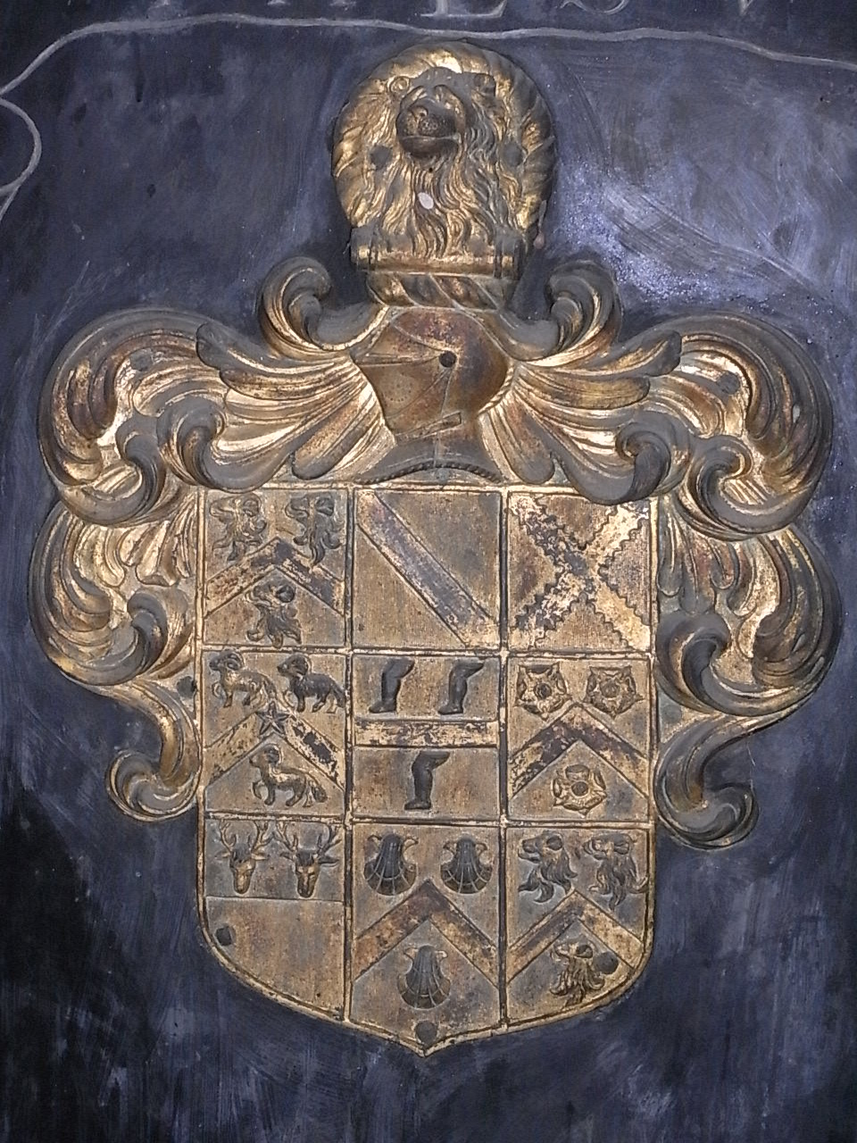 Gilt-bronze relief plaque showing heraldic achievement of Sir John Wyndham (d.1645), St Decuman's Church, Watchet, Somerset. Below the Wyndham crest: A lion's head in a fetterlock, is an escutcheon quarterly of 9: 1 & 9: Wyndham 2: Scrope 3: Tiptoft 4: Sydenham 5: Gambon 6: Wadham 7: Popham 8: Azure, a chevron ermine between three escallops argent (Townshend)